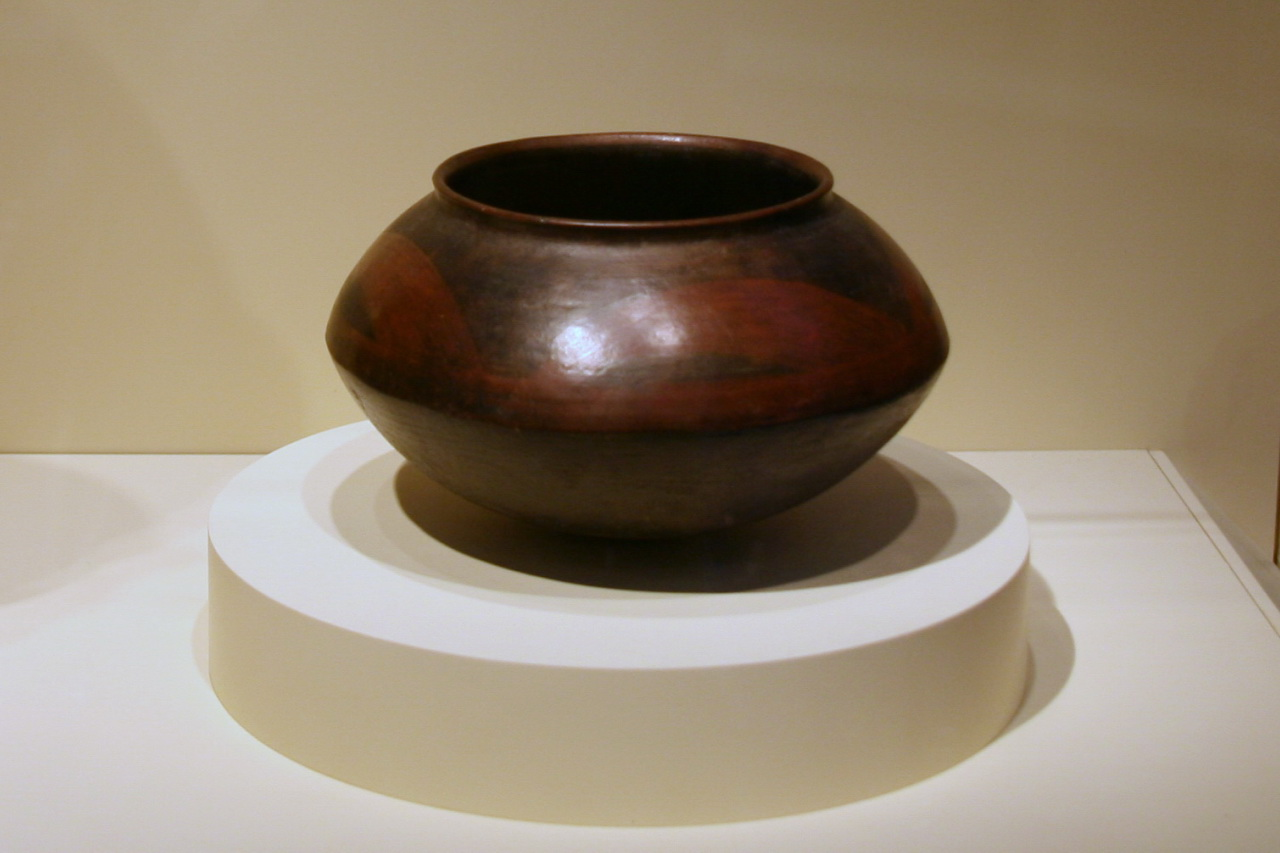 Bowl, Kisi people, Tanzania, Mid 20th century, Ceramic, pigment. The Smithsonian's National Museum of African Art